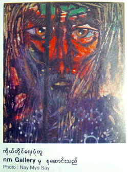 Painting by the artist Bagyi Aung Soe